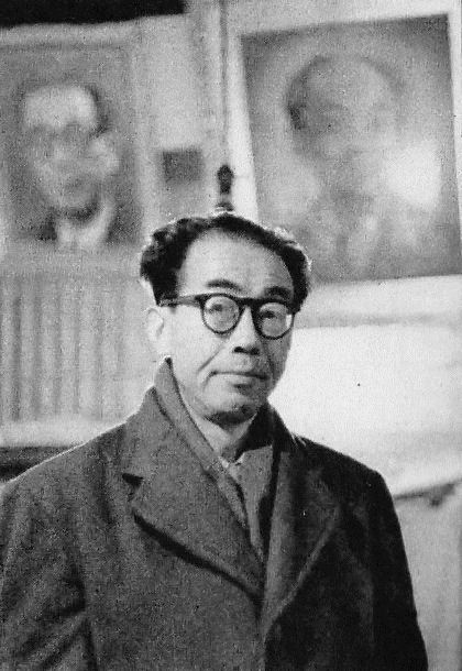 Yasoji Kazahaya